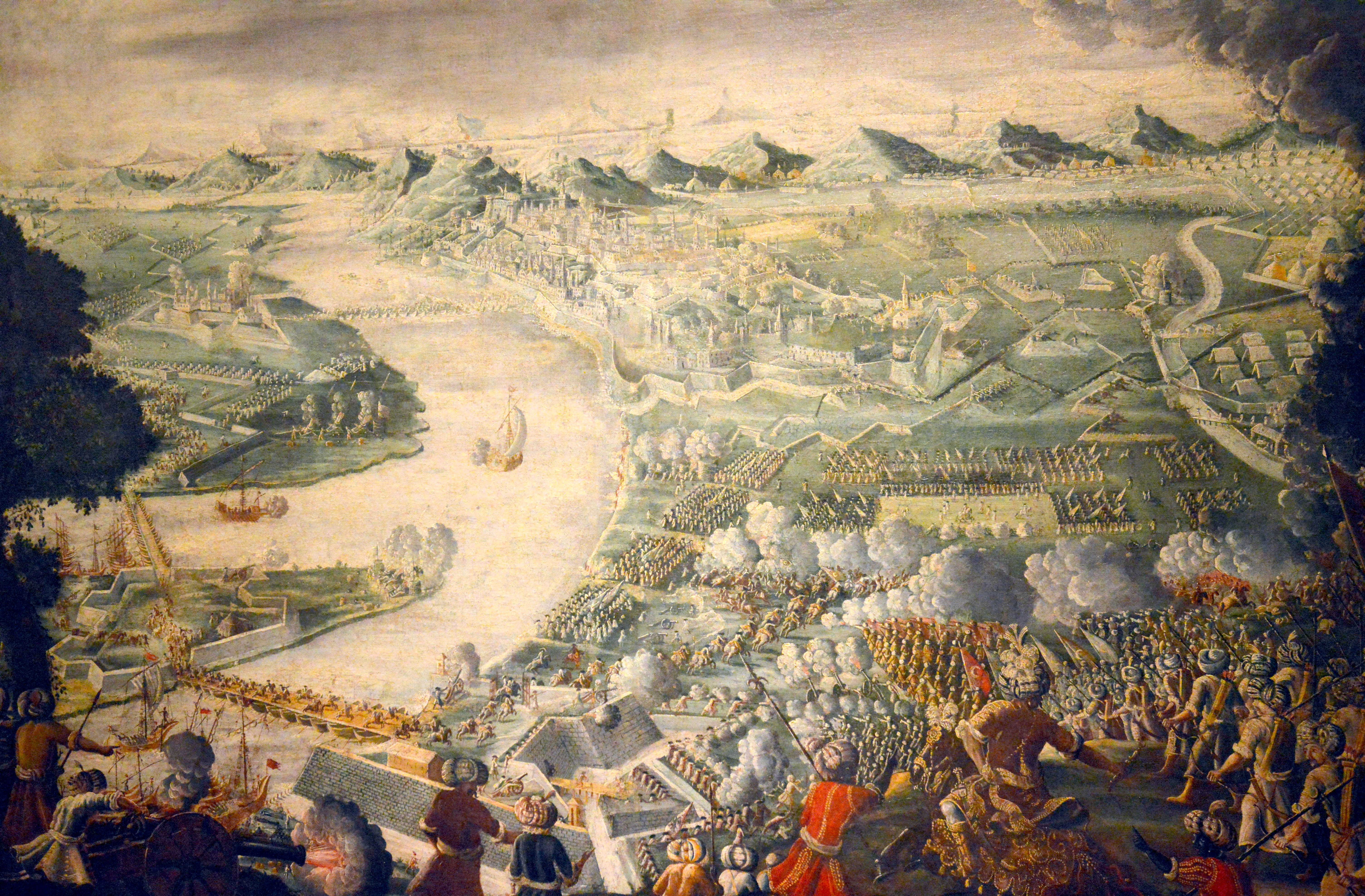 "The Taking of Buda, 1686" in the Deutsches Historisches Museum